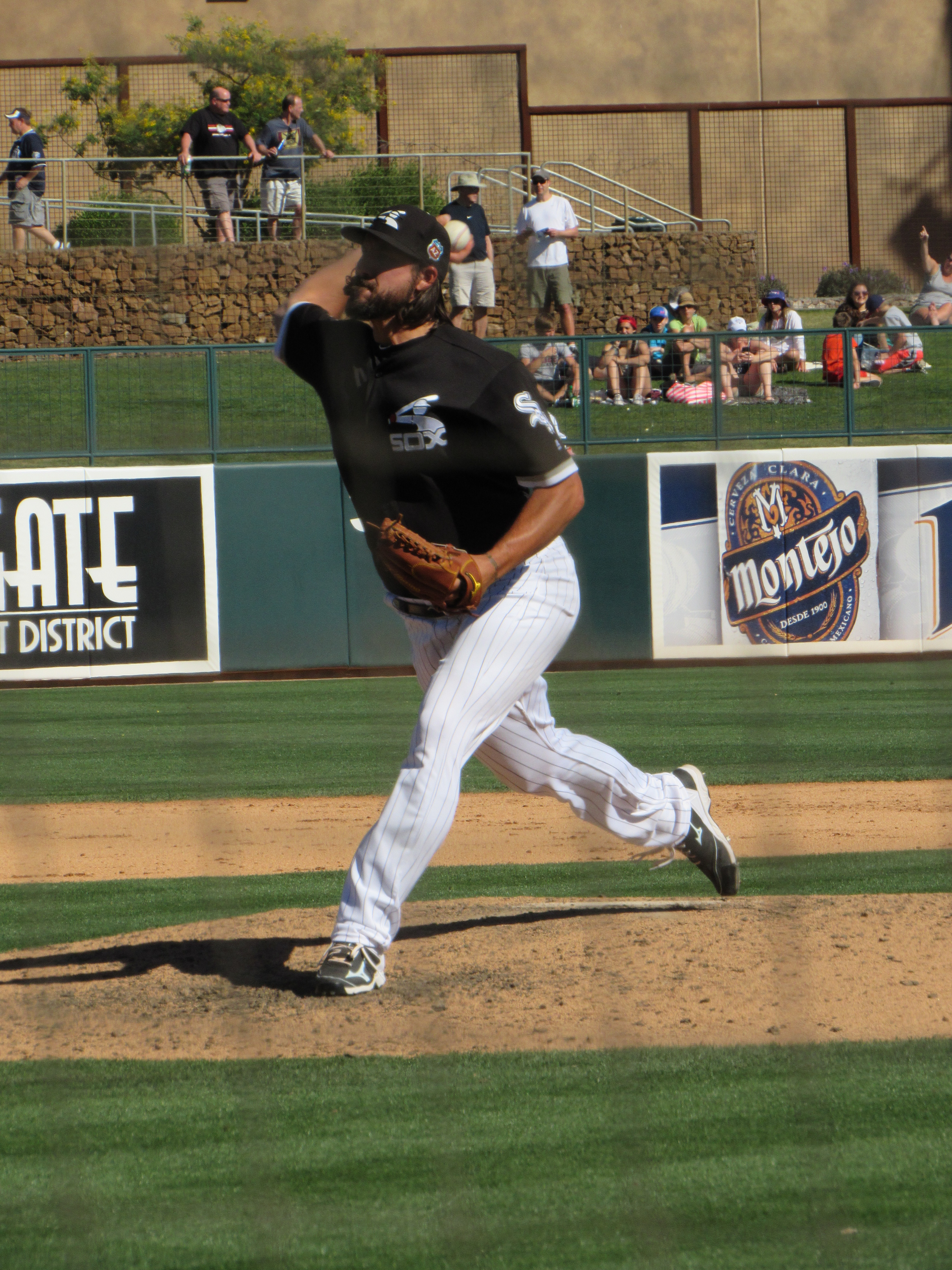 Aumont in Spring Training 2016